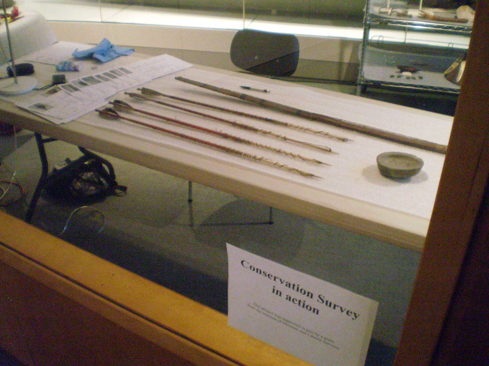 Several Alaska Native arrows and a bow rest in the conservation lab at the Anchorage Museum in Anchorage, Alaska, seen here in late March 2011.